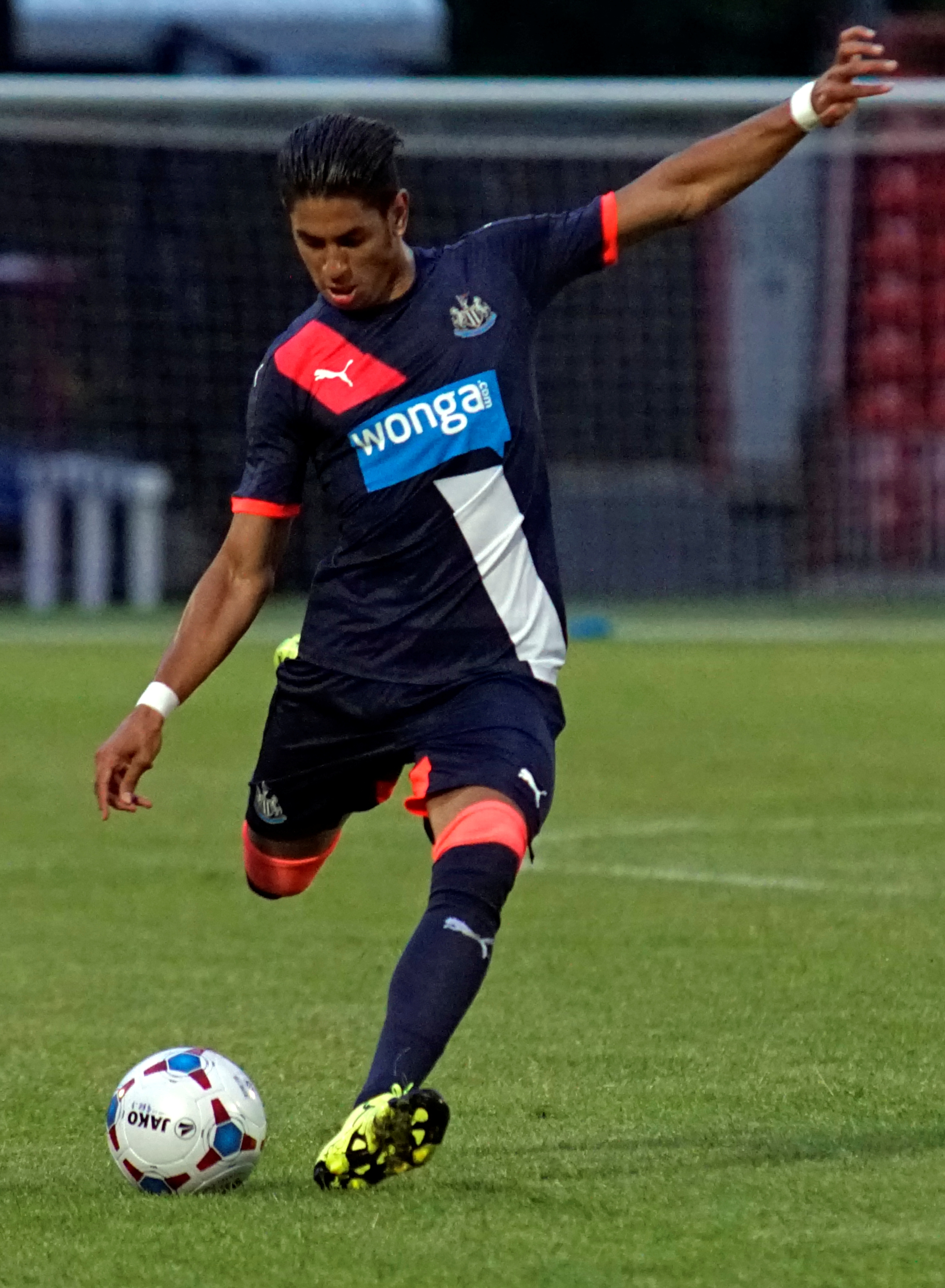 Ayoze Perez playing for Newcastle United in 2014/15 pre-season friendly against Gateshead.